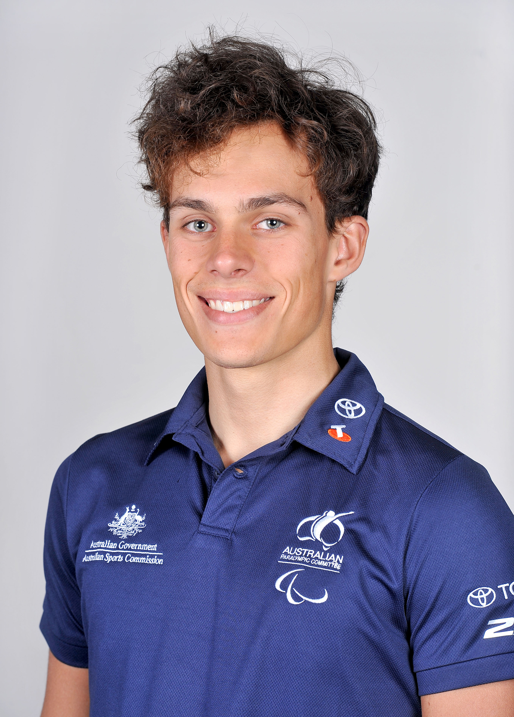 Portrait of Australian cyclist Scott McPhee, 2012 Australian Paralympic (shadow) Team athlete